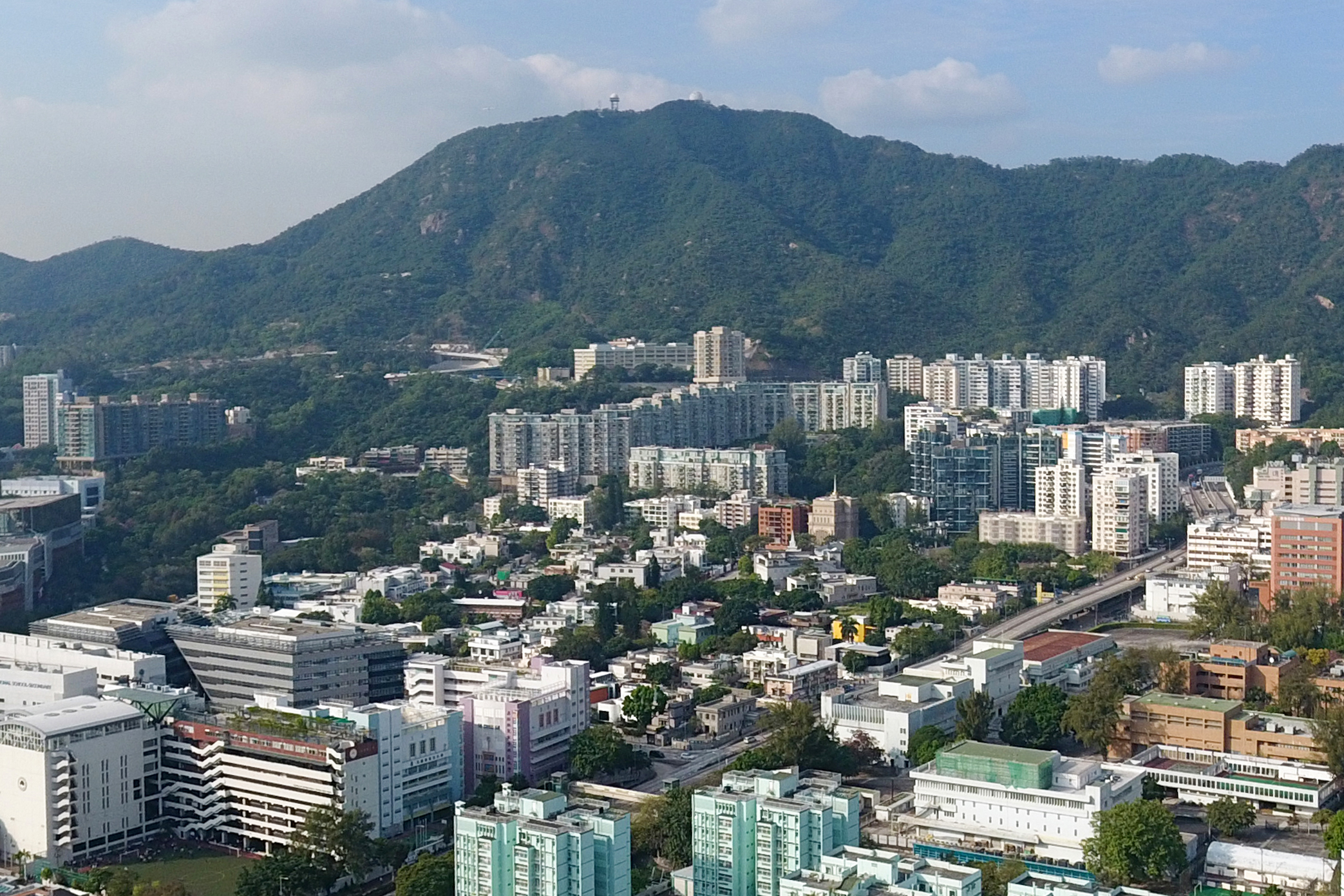 Beacon Hill Apartments